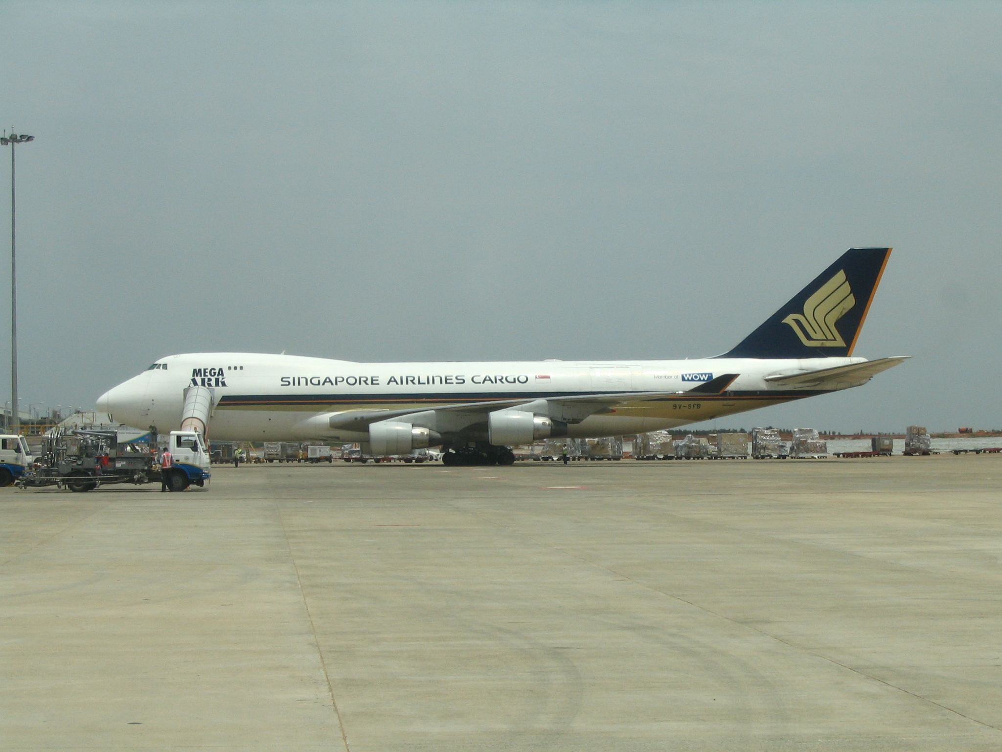 Singapore Airlines cargo Boeing 747 at Bengaluru International Airport.